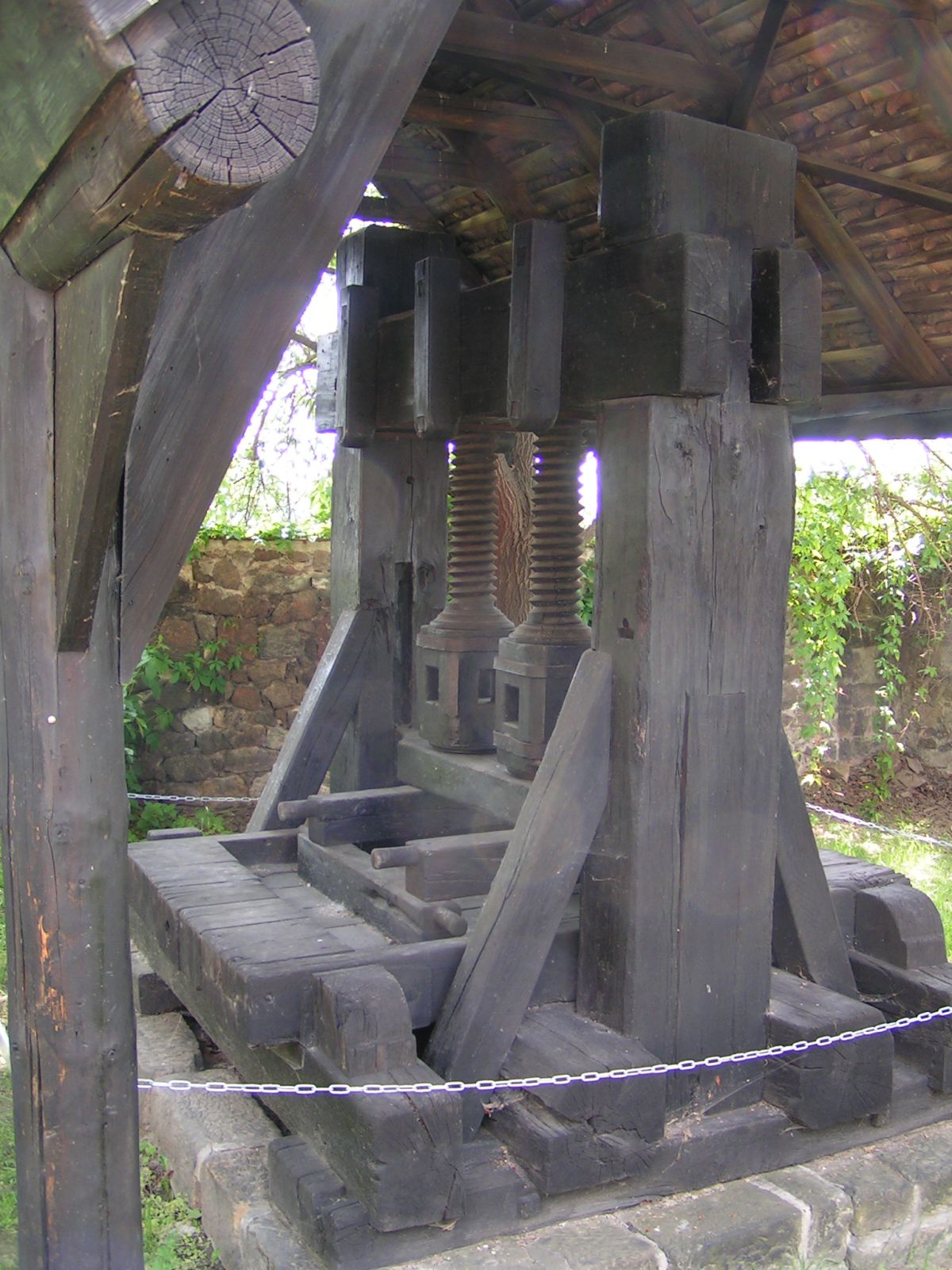 wine press (double screw press) at the Hoflössnitz estate at Radebeul, Germany. Die press comes from the "Graue Presse" estate at Wahnsdorf and shows a design typical to that region in the 18th and 19th century.